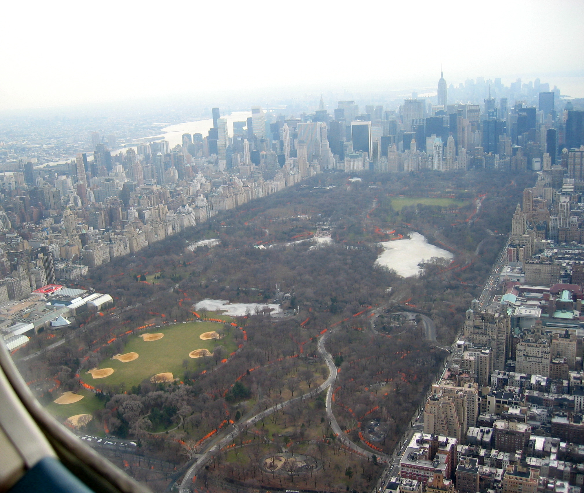 Digital photo taken on 12 February 2005 from a private airplane over Manhattan. Looking southeast over the southern half of Central Park from an altitude of approximately 2000 feet. Orange objects in the park are Christo's Gates. The large building complex at far left is the Metropolitan Museum. The Empire State building is visible in the background.